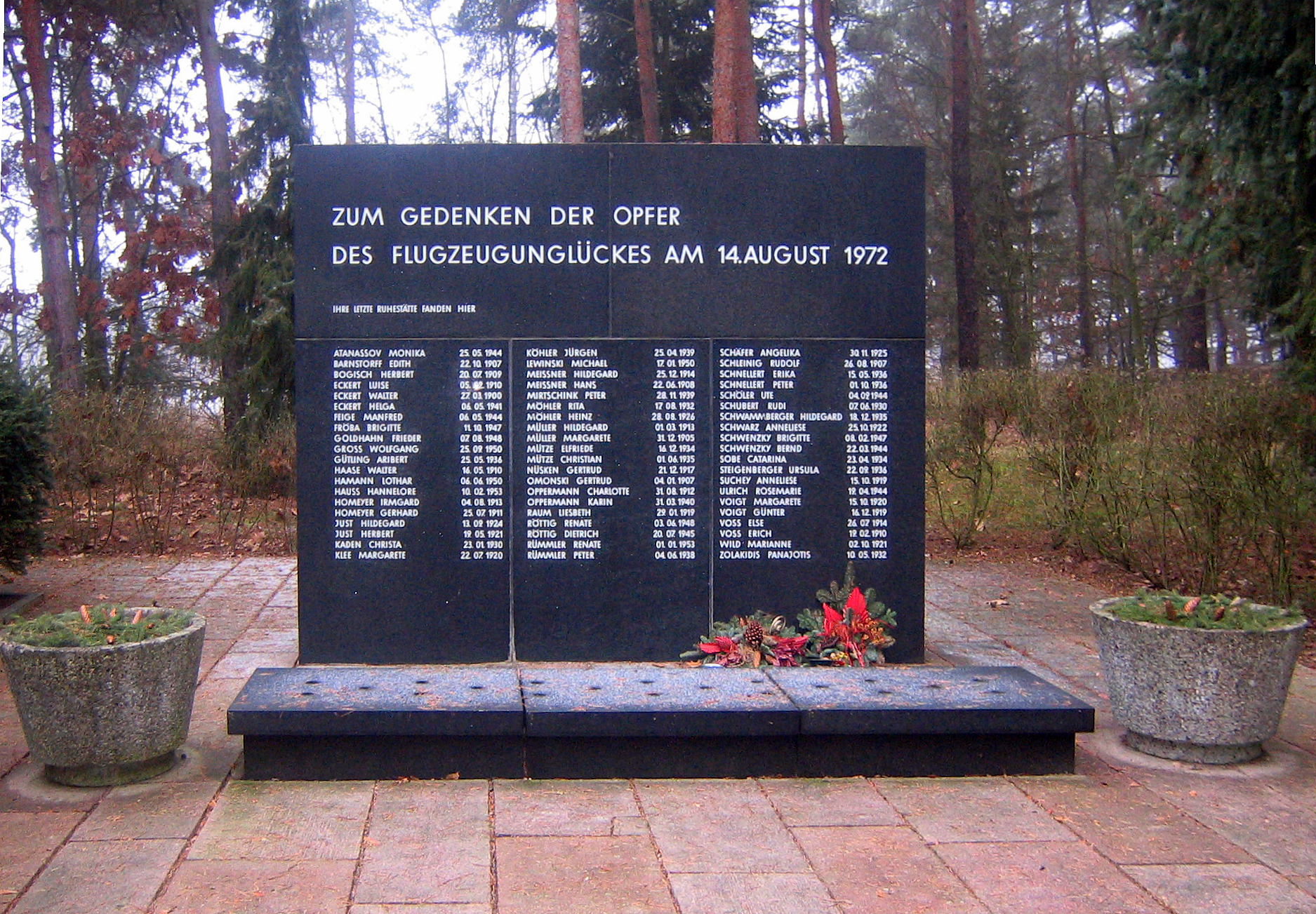 Memorial for Interflug Aircrash 1972